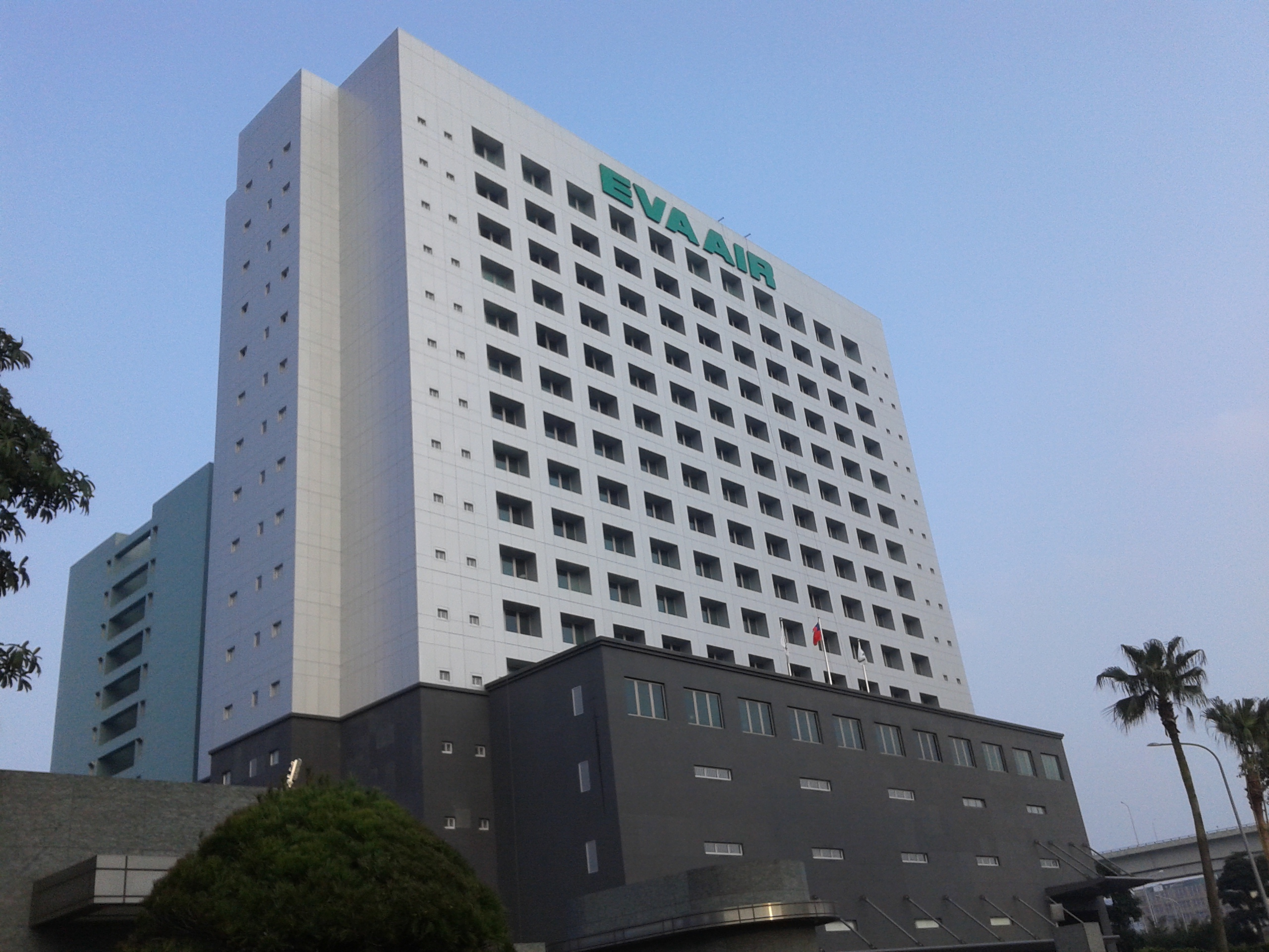 桃園 長榮航空總部大樓 EVA AIR Headquarters